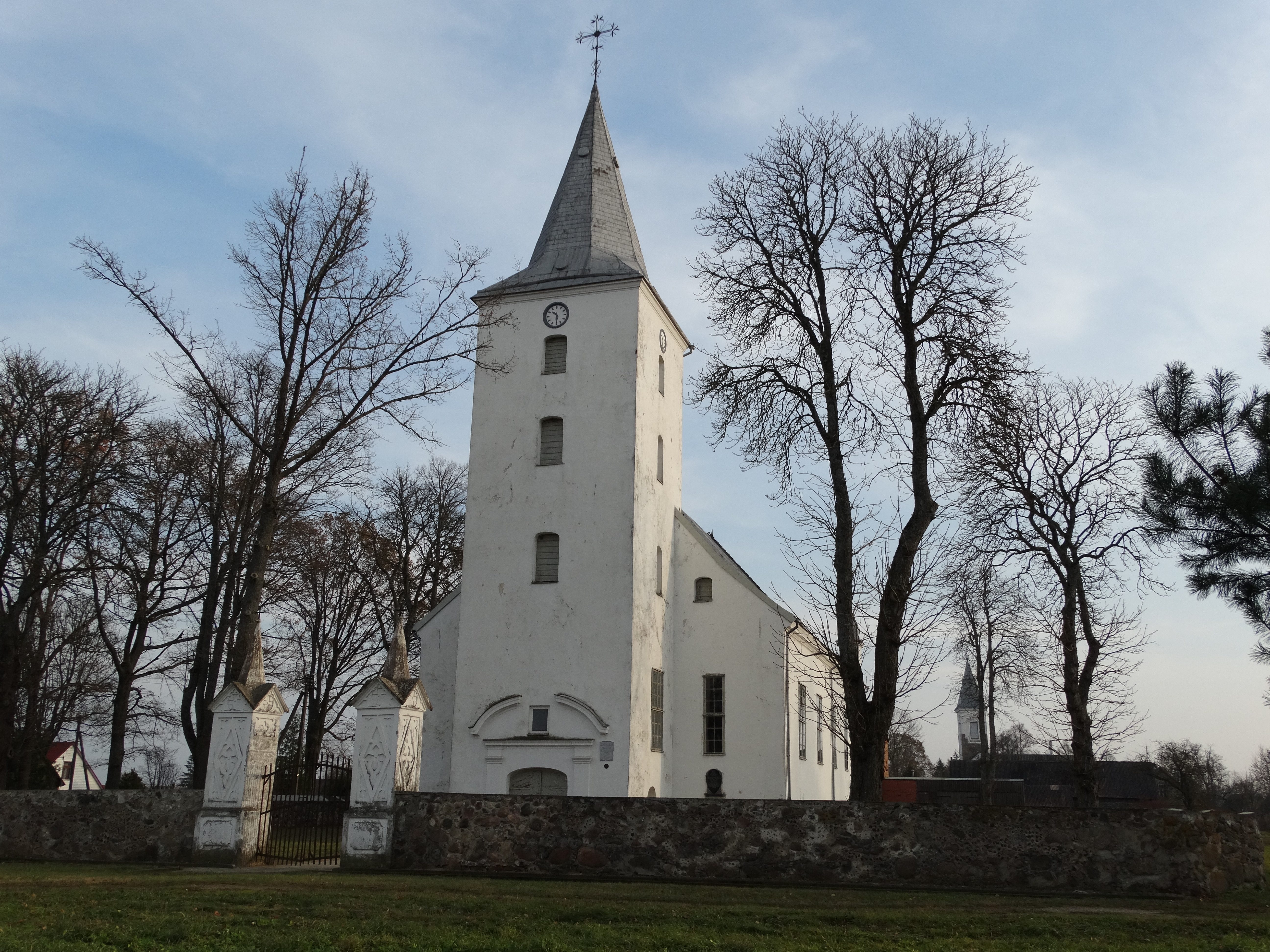 Evangelical Reformed Church, Papilys, Biržai district, Lithuania